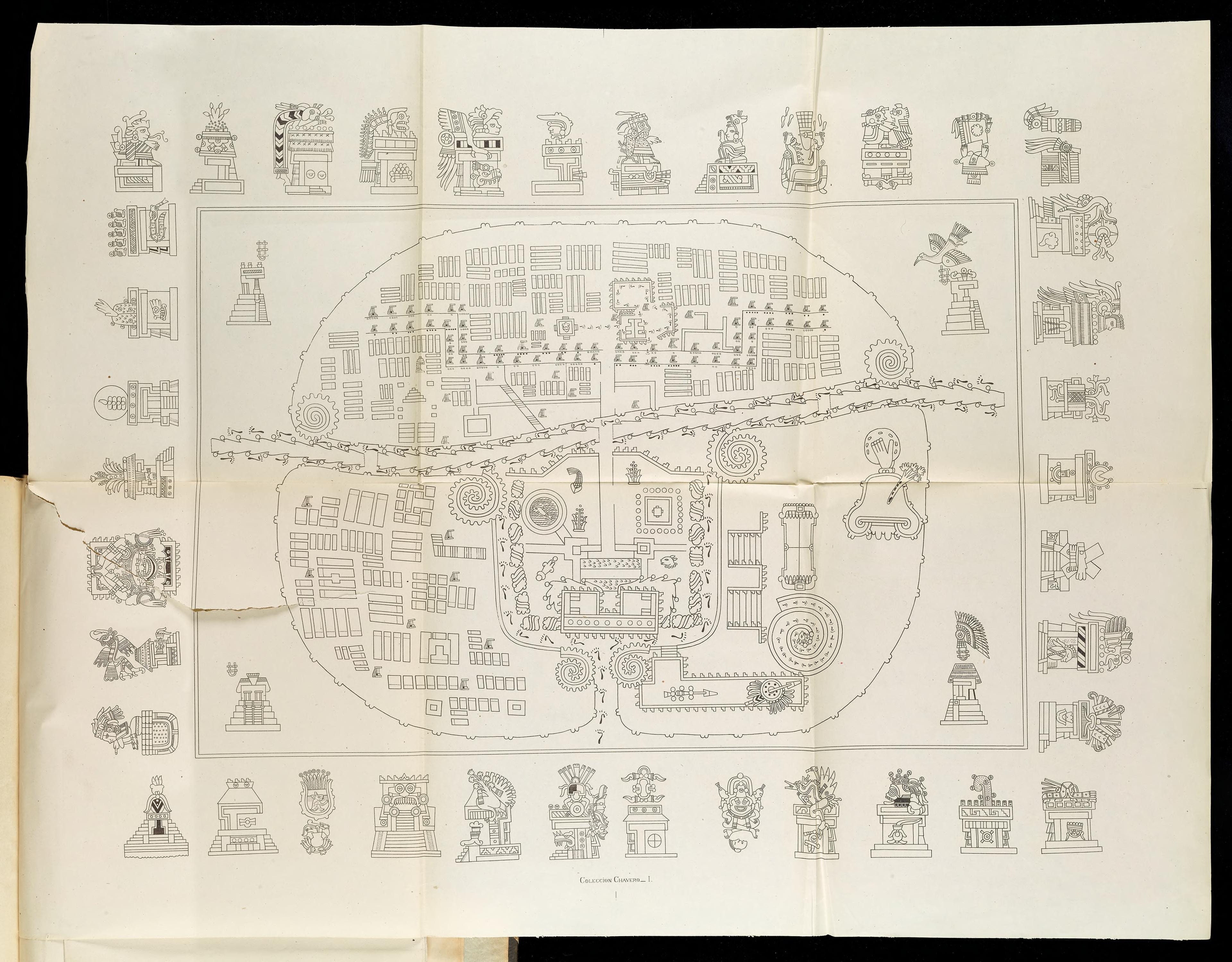 A Map of Tlaxcala: The top-right hand sector is Tizatlan, the bottom-right hand sector Quiahuiztlan, the top-left hand sector Ocotelolco, and the bottom-left hand sector Tepeticpac. The river, Atzompa, crosses the city from North to South (left to right, the map being oriented along an East-West axis).